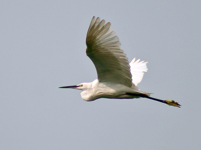 Little Egret Egretta garzetta in Kolkata, West Bengal, India.